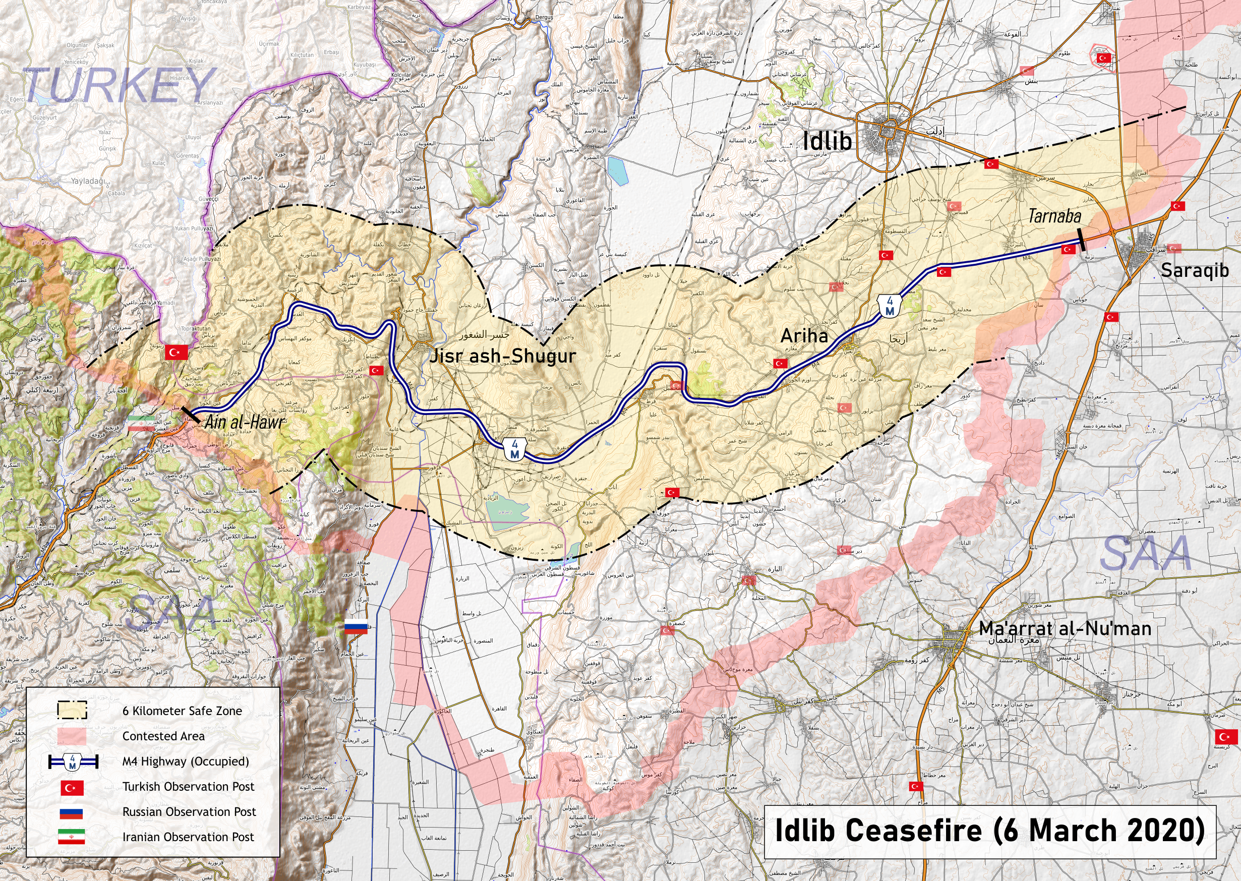 Map of southern Idlib with the established Turkish-Russian joint patrol zone along the M4 highway in yellow. Map sources OpenTopoMap and MilitaryMaps.